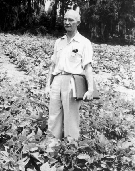 All-America Selections founder W. Ray Hastings